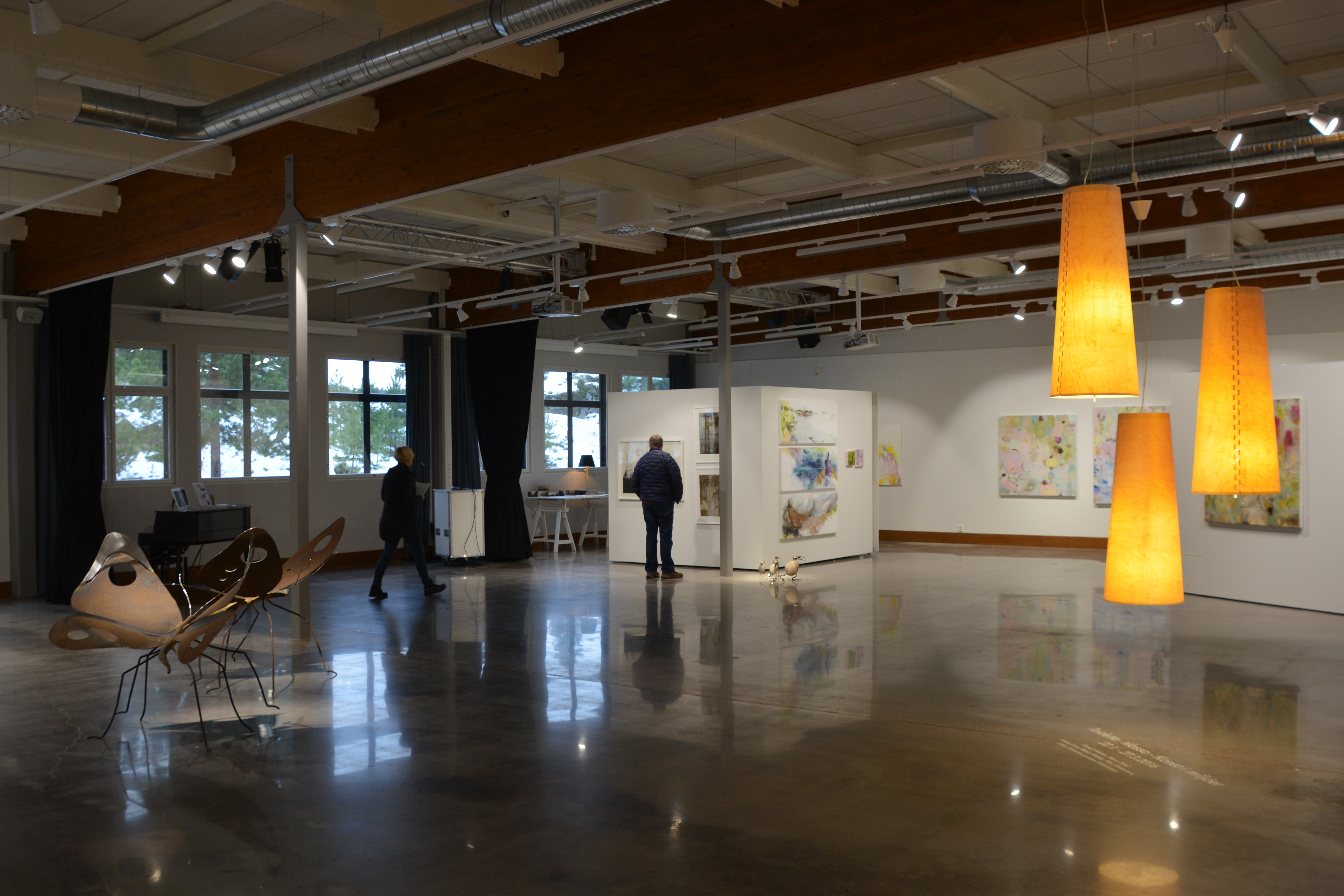 Gumbostrand Konst och Form